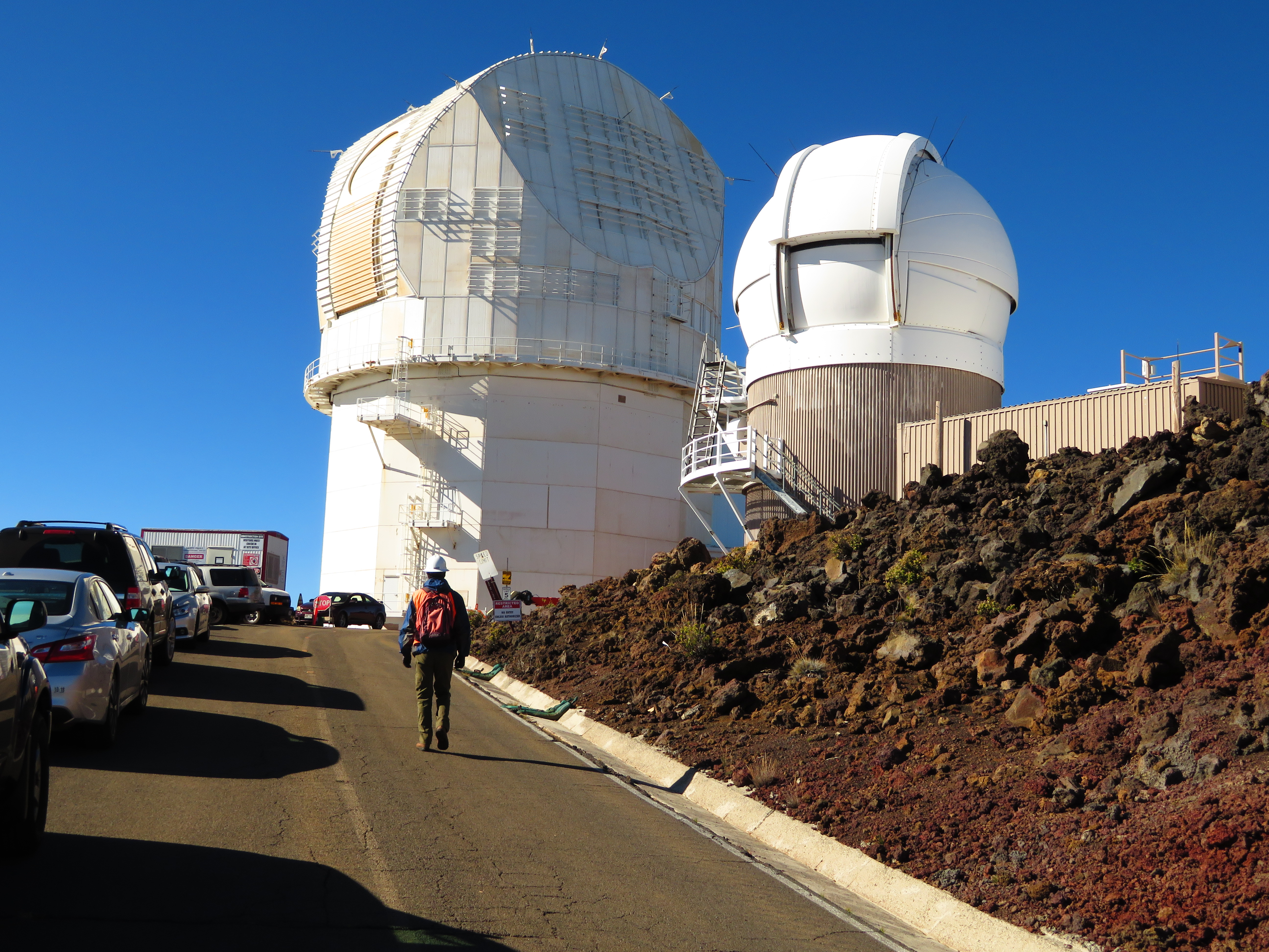 Dubautia menziesii (Kupaoa) View DKIST and PanSTARRS Telescopes with Forest at Science City, Maui, Hawaii. November 02, 2017 #171102-0851 Image Use Policy